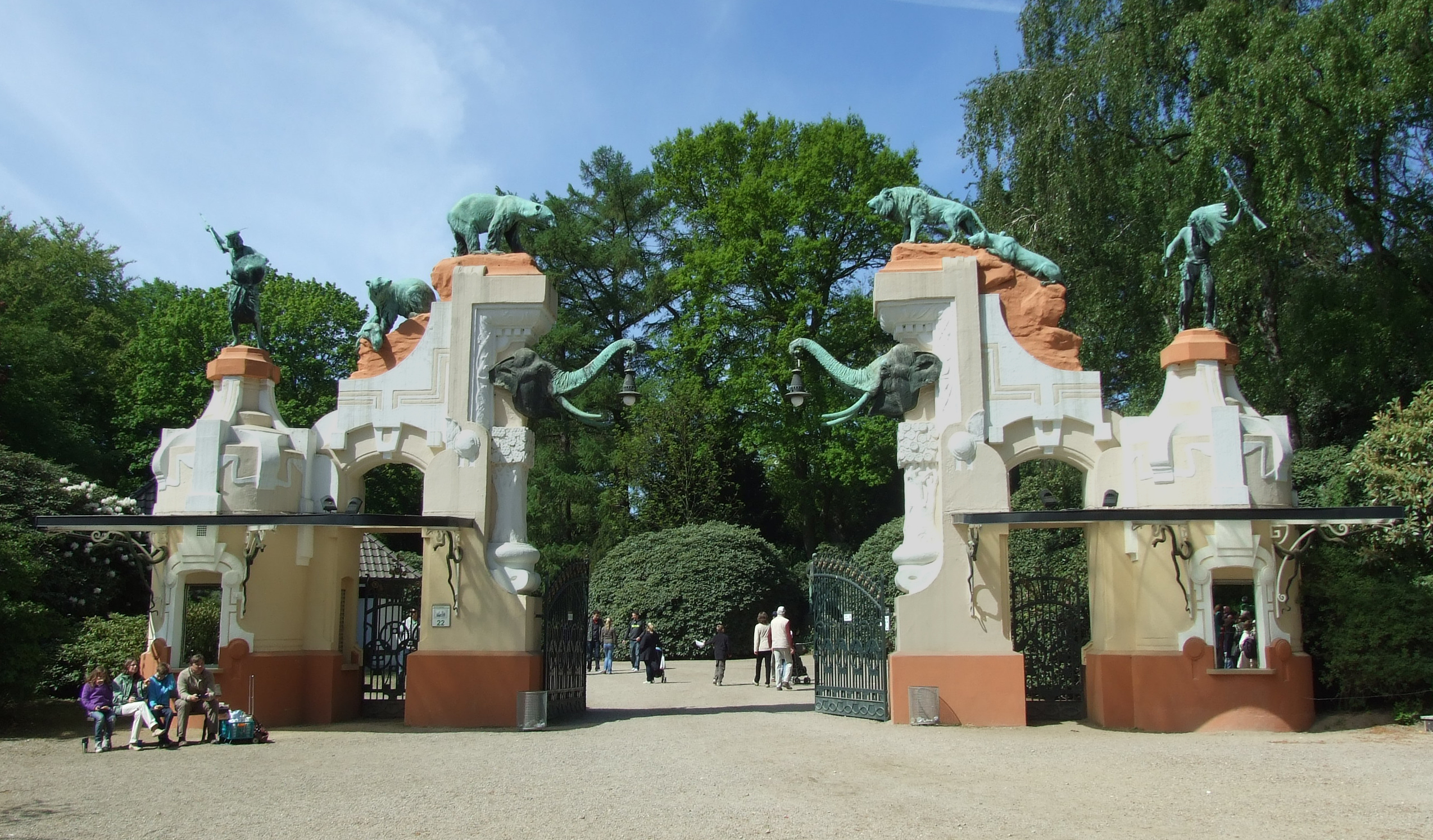 former Main-Entrance of Tierpark Hagenbeck, Hamburg